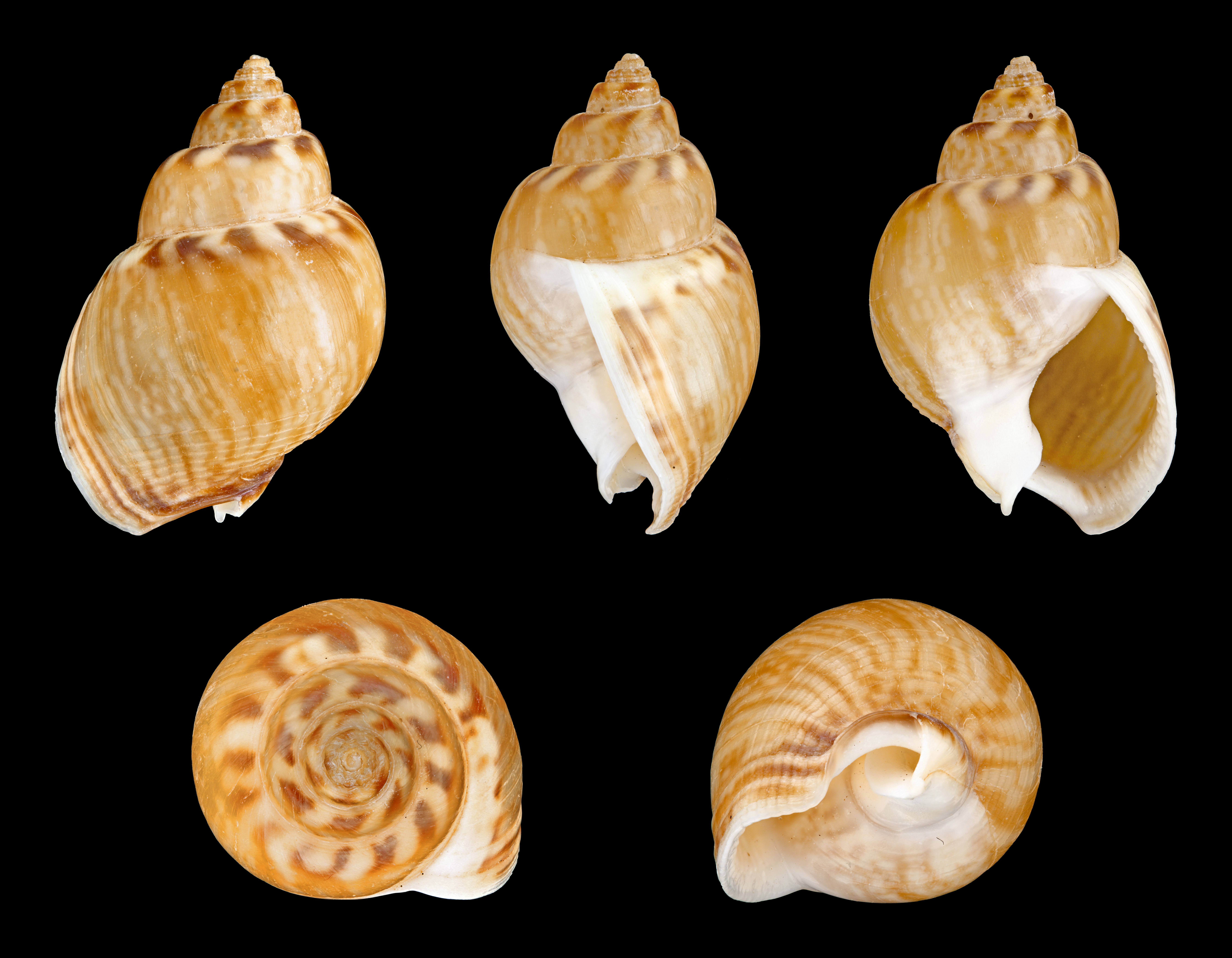 Mutable Nassa; Length 2.6 cm; Originating from Port Leucate, France; Shell of own collection, therefore not geocoded. Dorsal, lateral (right side), ventral, back, and front view.